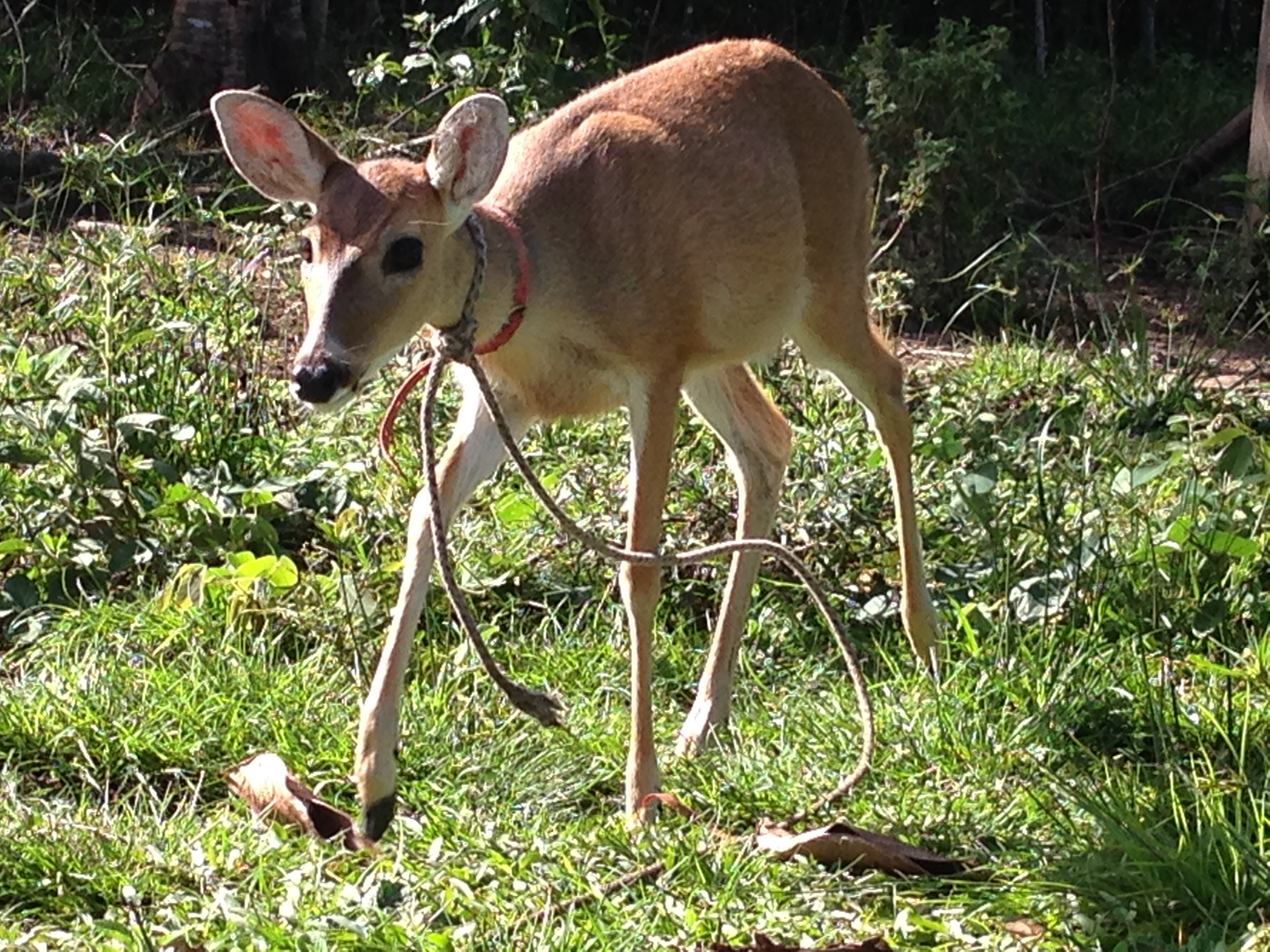 White-tailed deer fawn being kept as a pet in a farm in Meta, Colombia